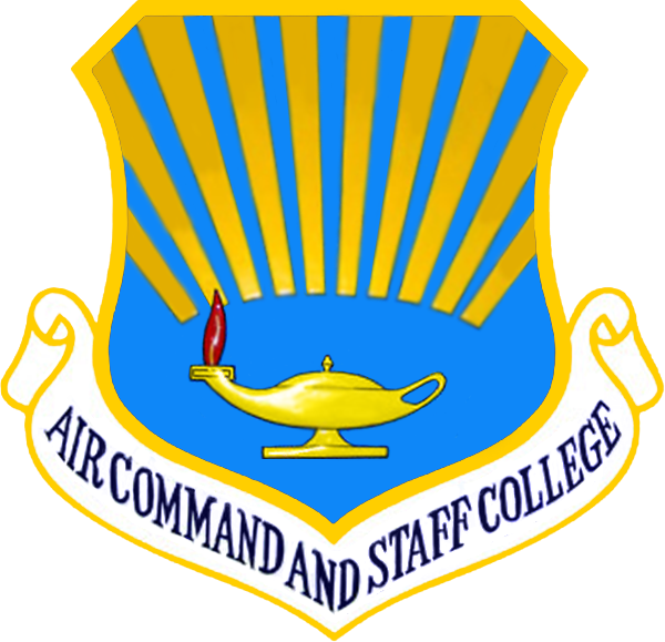 United States Air Force Air Command And Staff College emblem. Made with Photoshop.